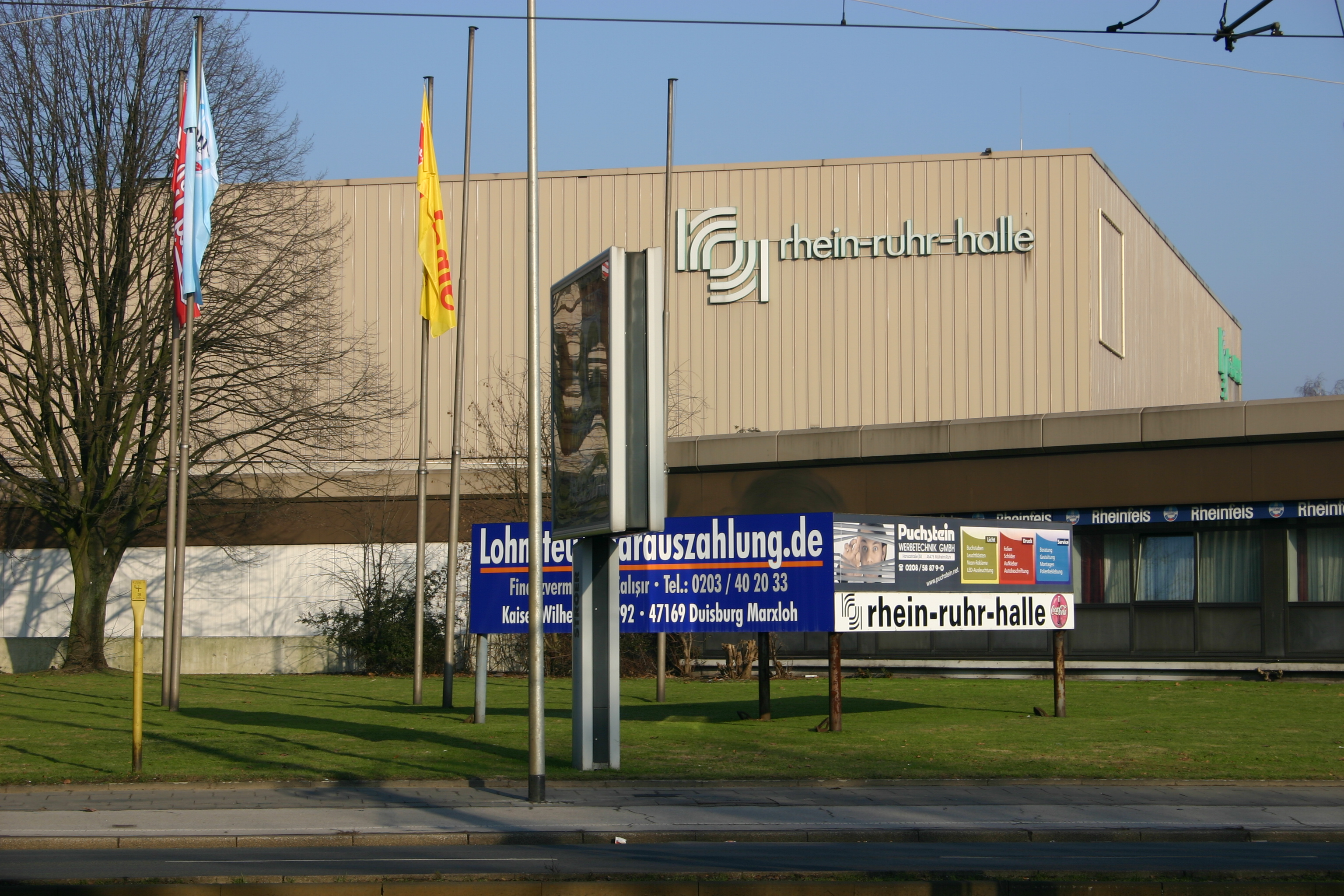 „Rhein-Ruhr-Halle“, south-west side. The building is a first and foremost in North Rhine-Westphalia widely known event hall in Duisburg. In the foreground on the right hand side you can see the restaurant of the hall. In particular the hall is used for political, sport and music events; in former times also for television shows. In 1995 Michal Jackson celebrated here his world premiere with the Earth Song. (Original photo, raw; photographed by BlackIceNRW.)